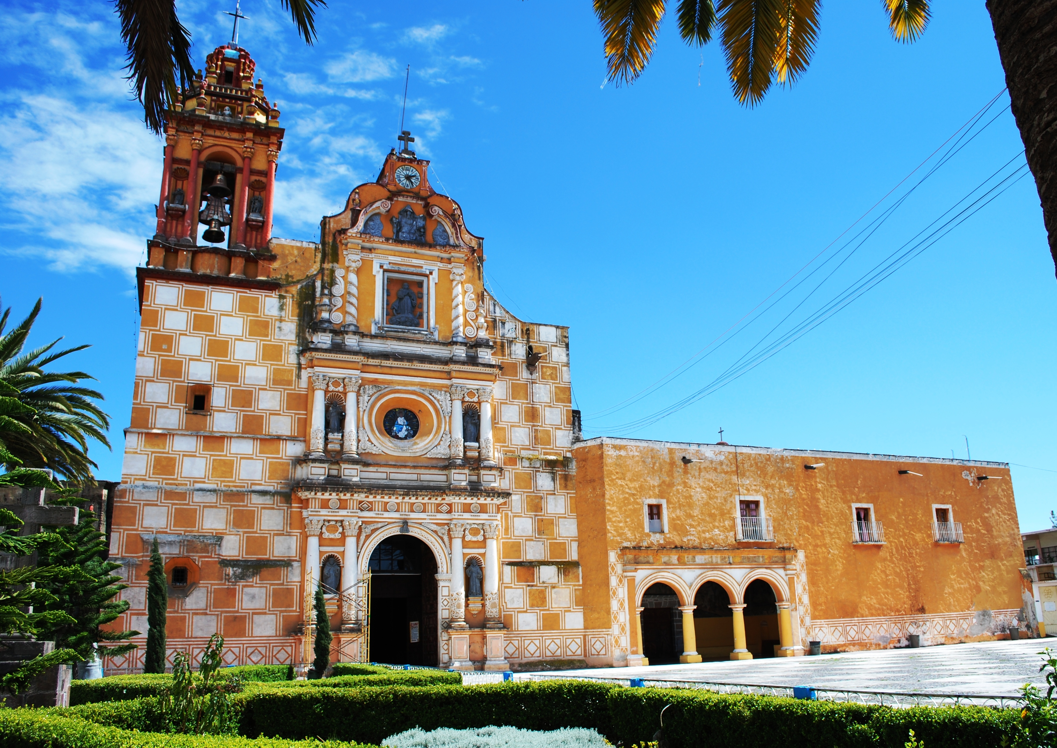 Facade of the Parish of the Immaculate Conception in Ozumba, Mexico State